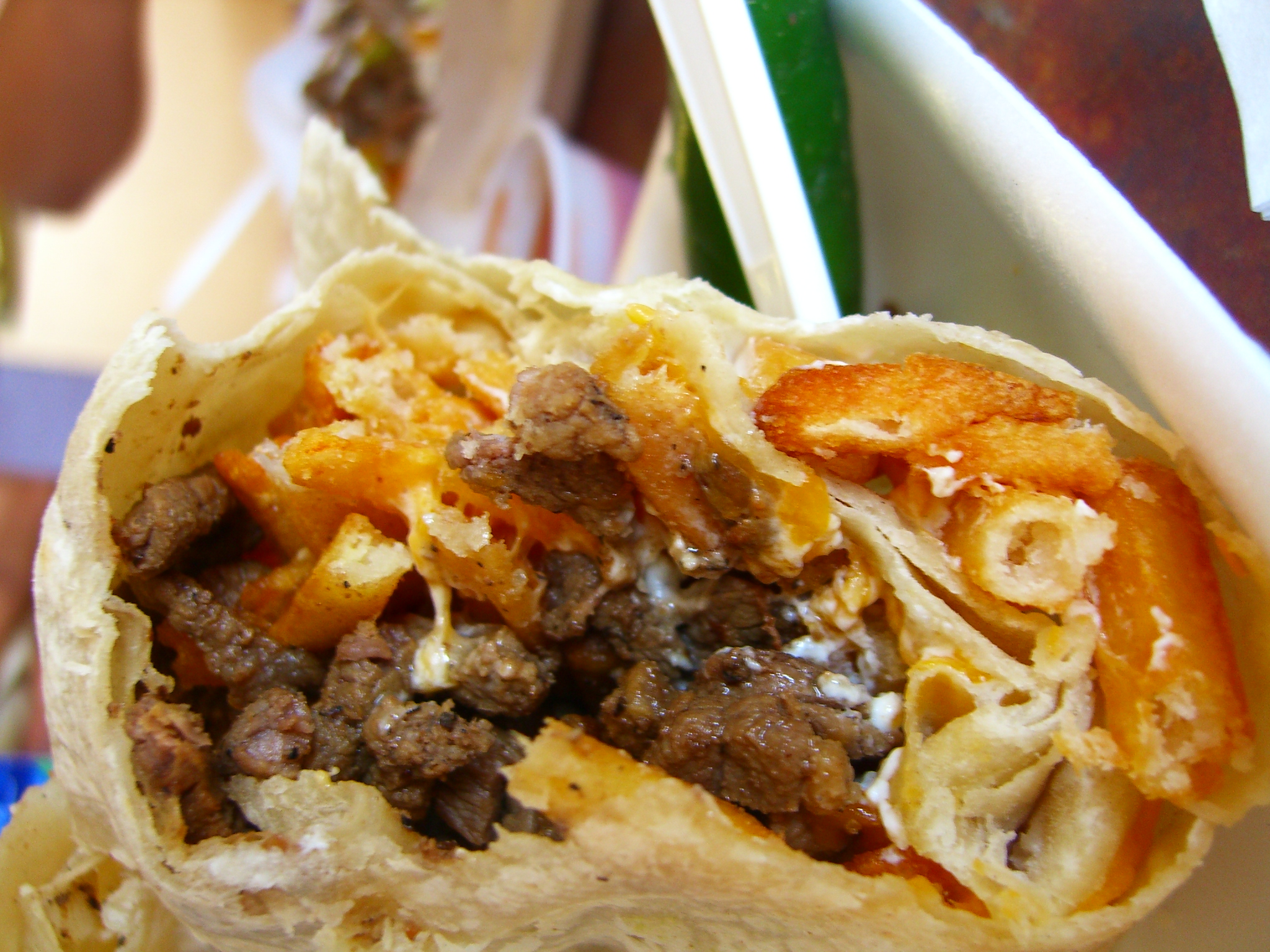 in case you were wondering what a california burrito is, it's a regular burrito with french fries (or sometimes potatoes) in it. this particular one, from lolita's in san diego, also had carne asada, cheese, sour cream, and rice (rice was requested). it was amazing.